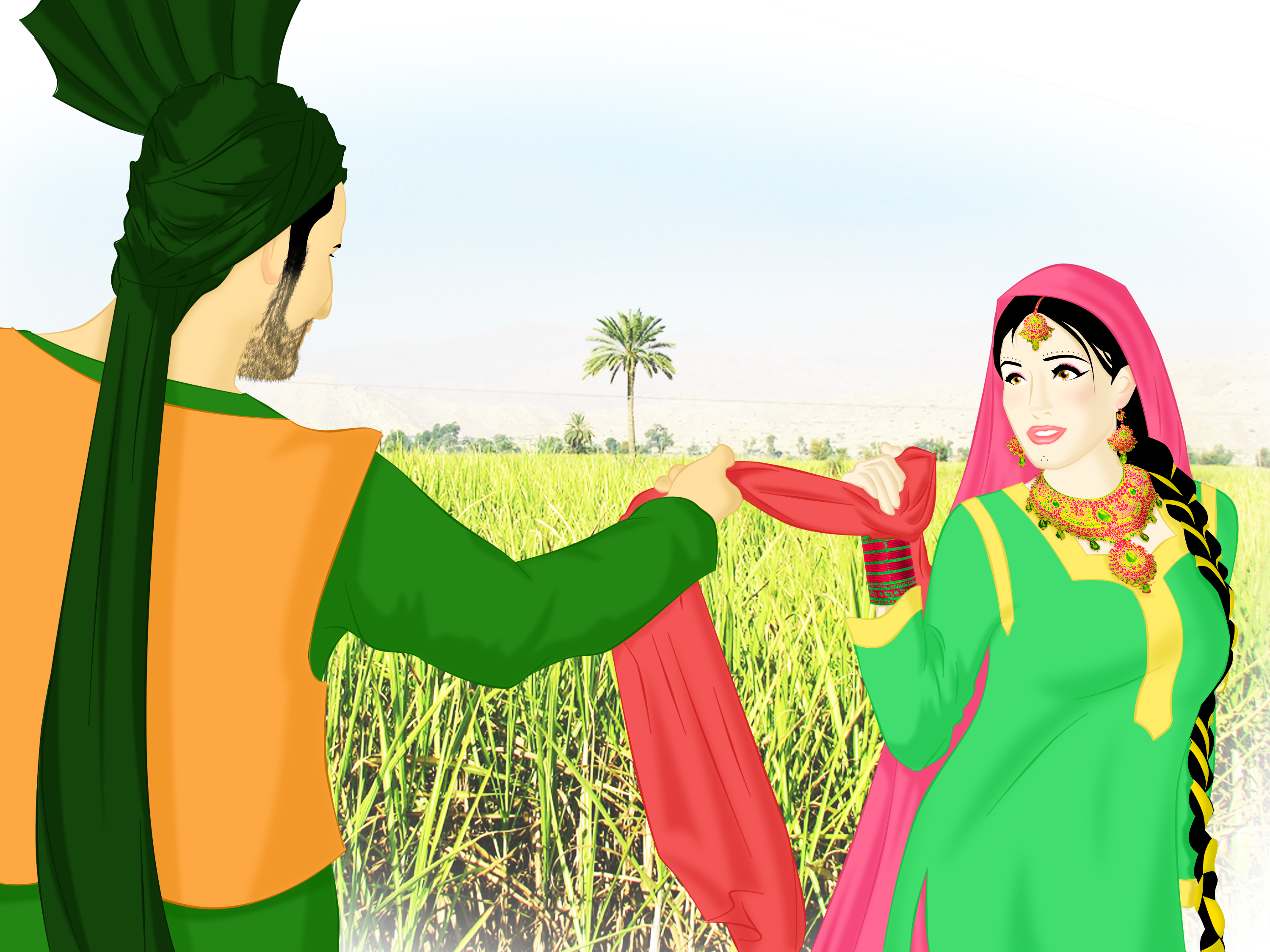 Punjabi Panjabi pakistan india sikh iranian indo aryan